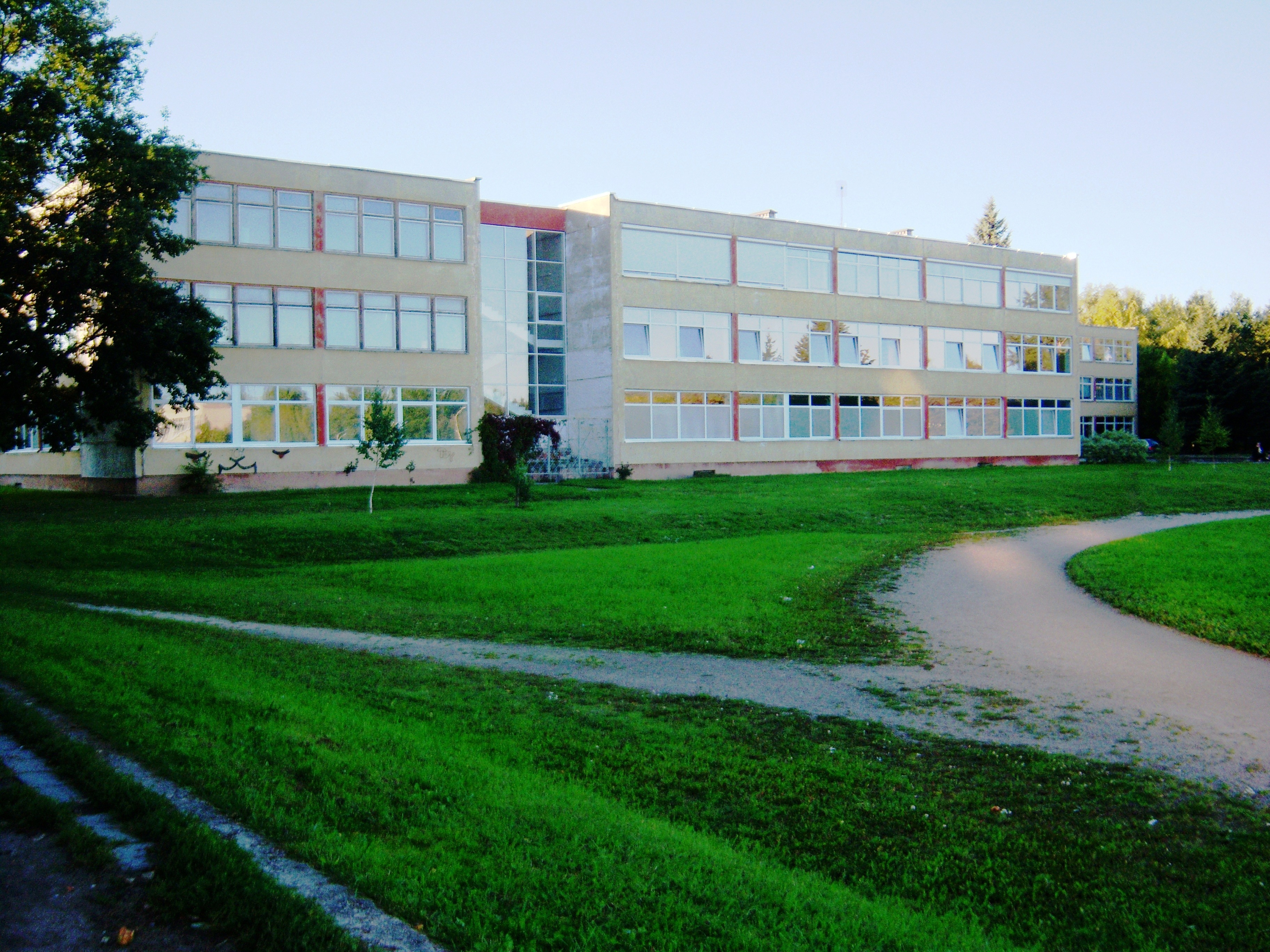 Gymnasium of A. Pushkin, Basic Education Department, Kaunas, Lithuania